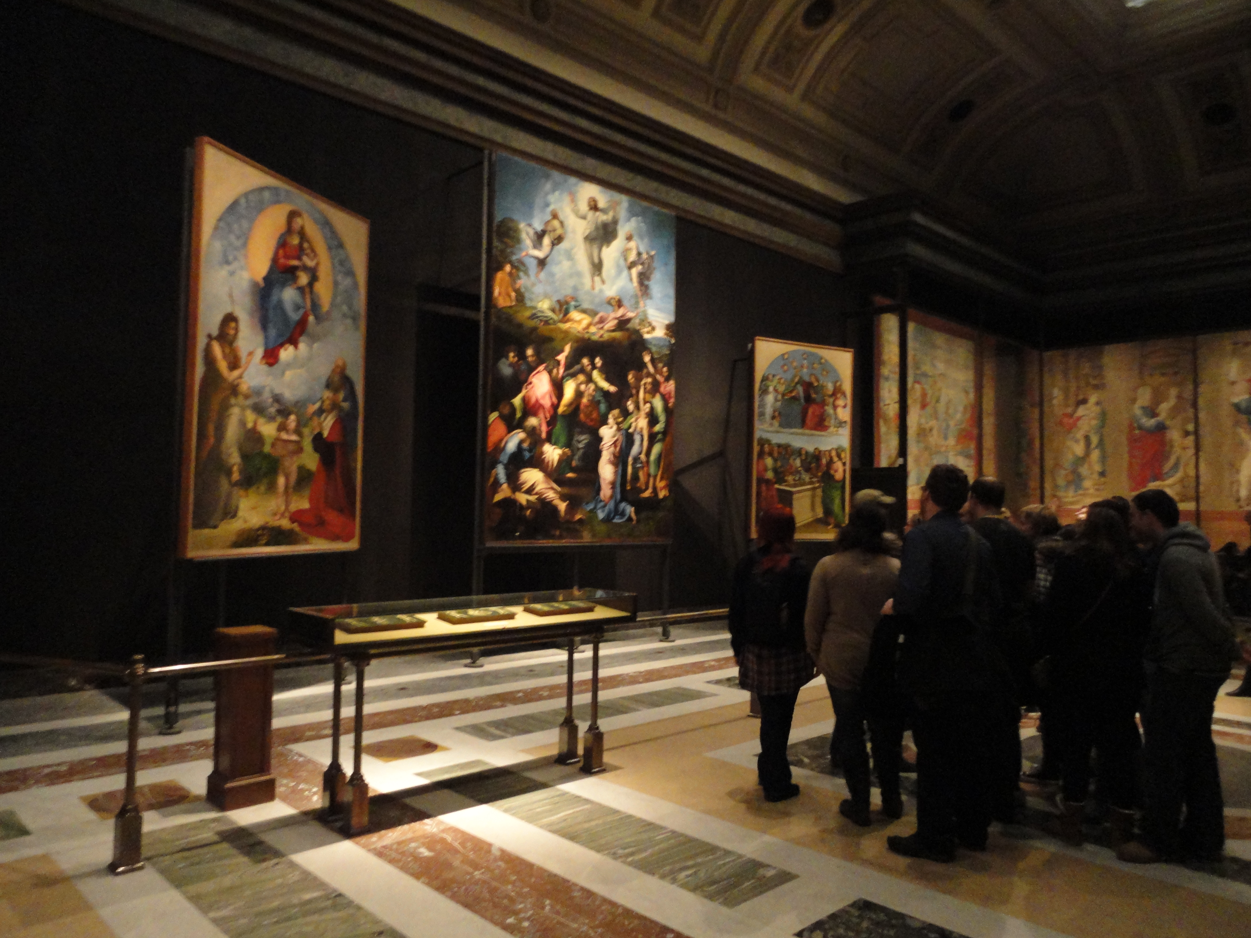 Raffaello Sanzio paintings in the Pinacoteca Vaticana